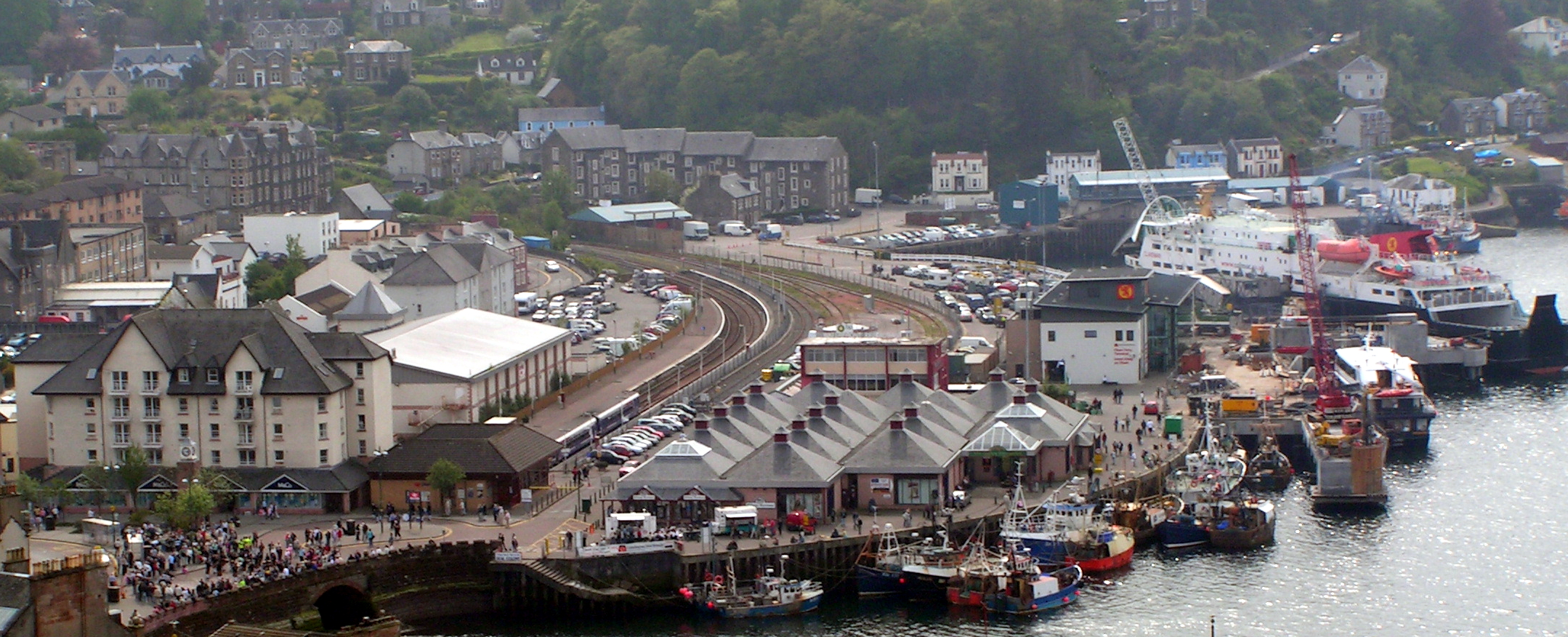 View of Oban Railway Station, showing proximity to Harbour and Ferry Terminal. taken from McCaig's Tower.